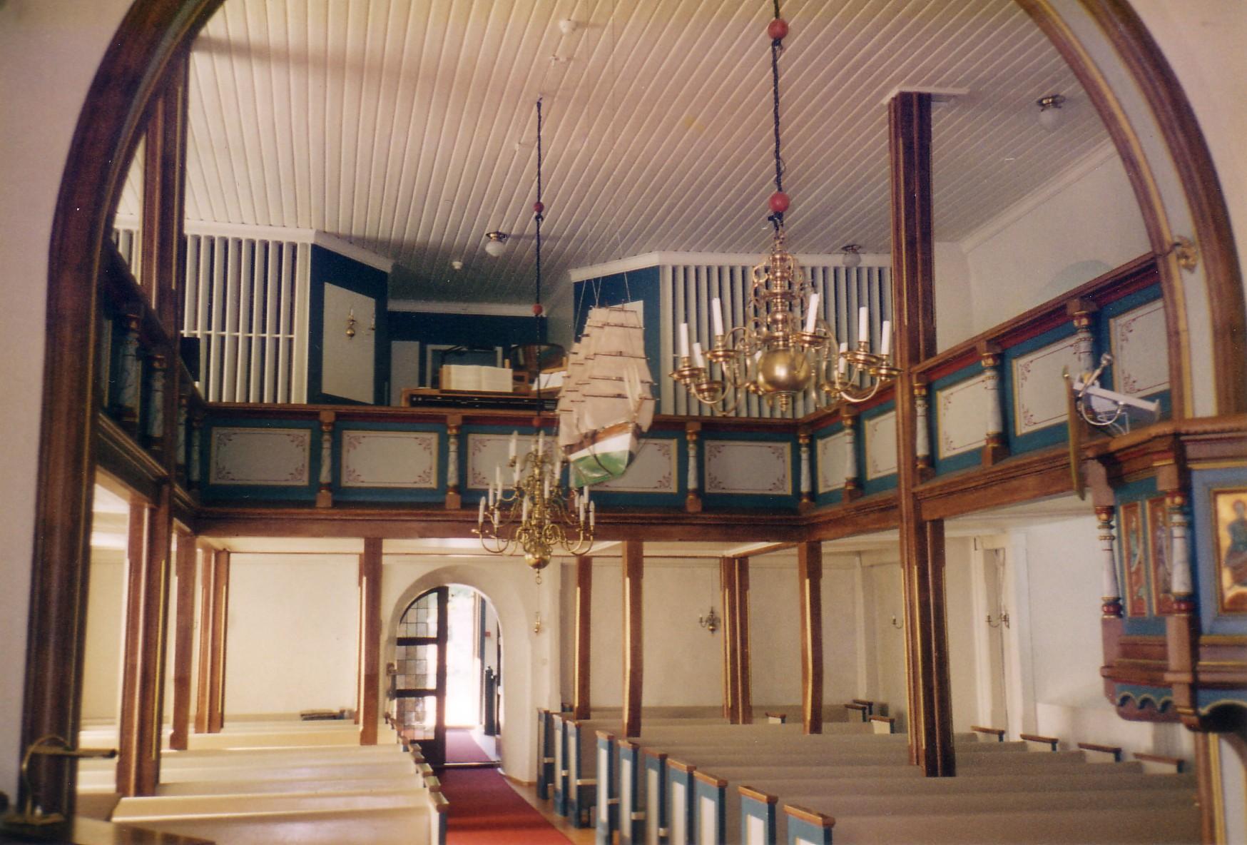 The J. H. Jørgensen organ of 1943 in Kråkstad Church, Ski, South Norway